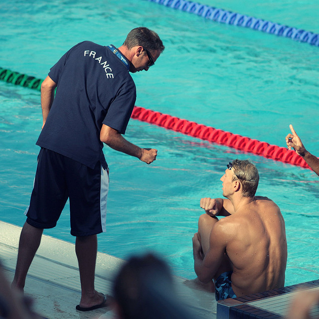 French swimmer Alain Bernard with his trainer Denis Auguin during 2009 FINA World Championships, Rome, Italy.